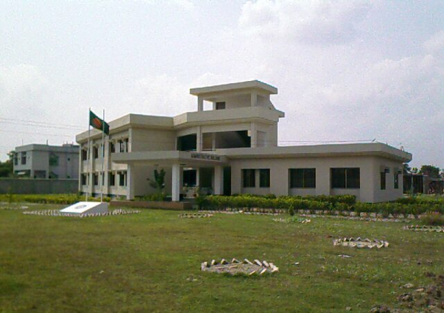 Feni Girls Cadet College administration building. Feni District, Bangladesh